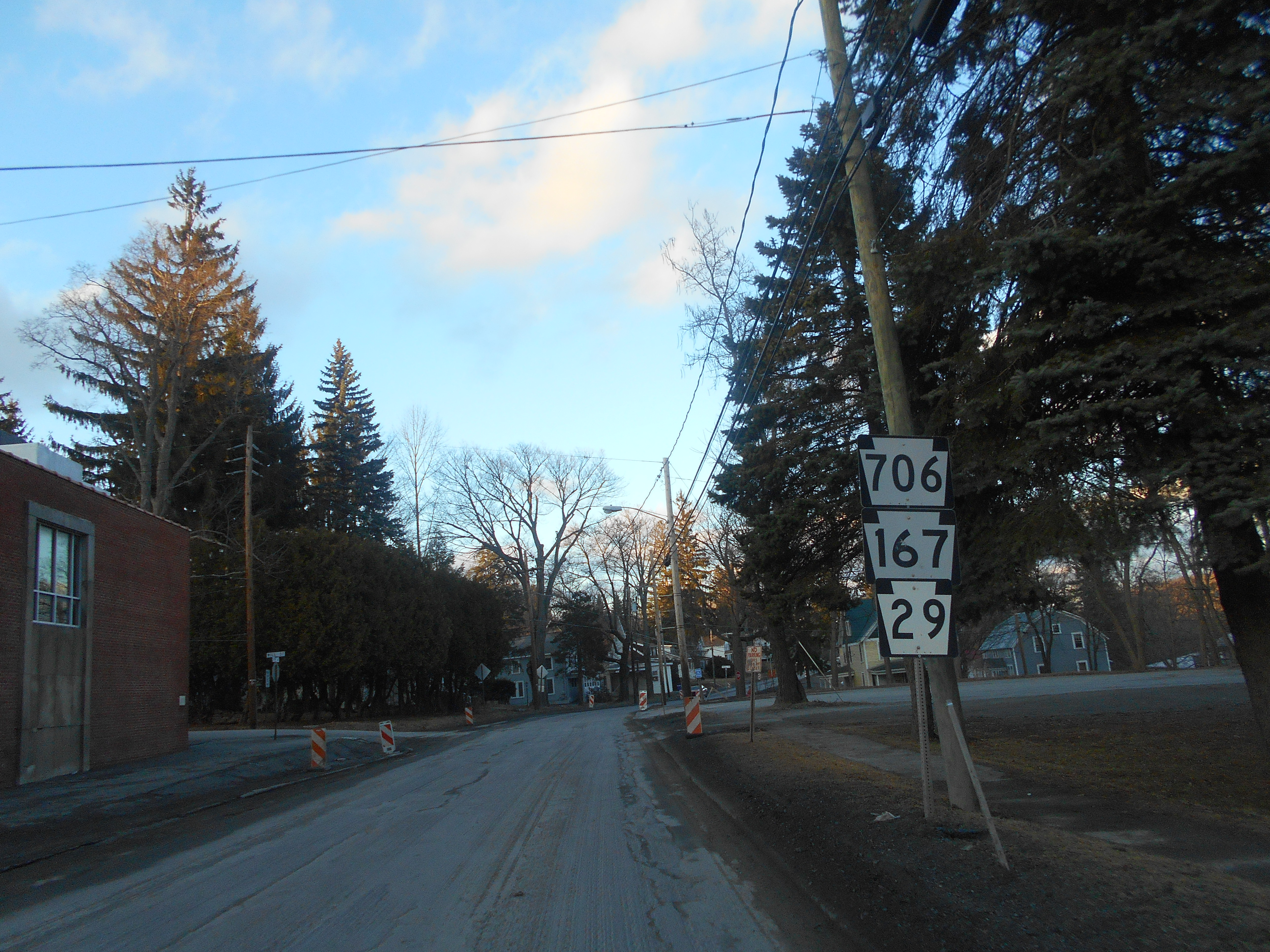 Route 706, Route 167 and Route 29 triple concurrency through Montrose, Pennsylvania.